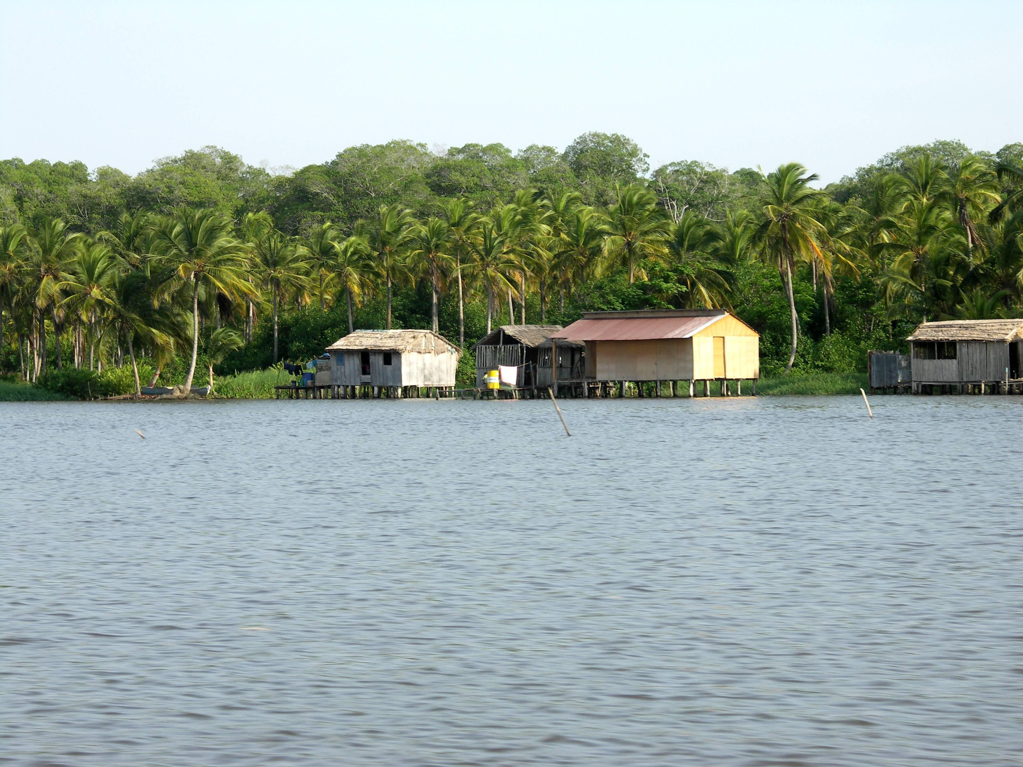 Sinamaica Lagoon, Zulia Venezuela (Venezuelan Guajira)